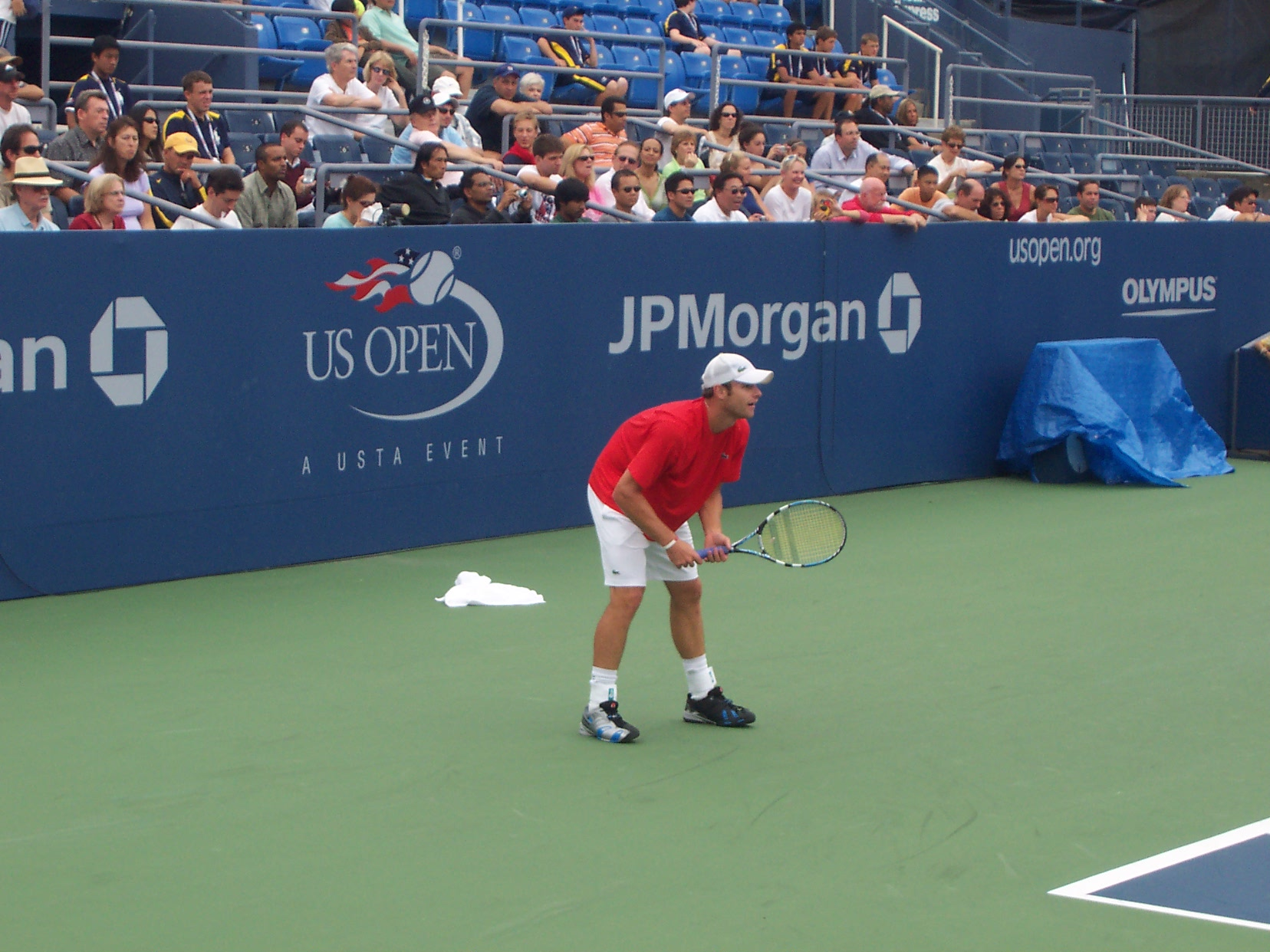 Andy Roddick At The 2007 US Open